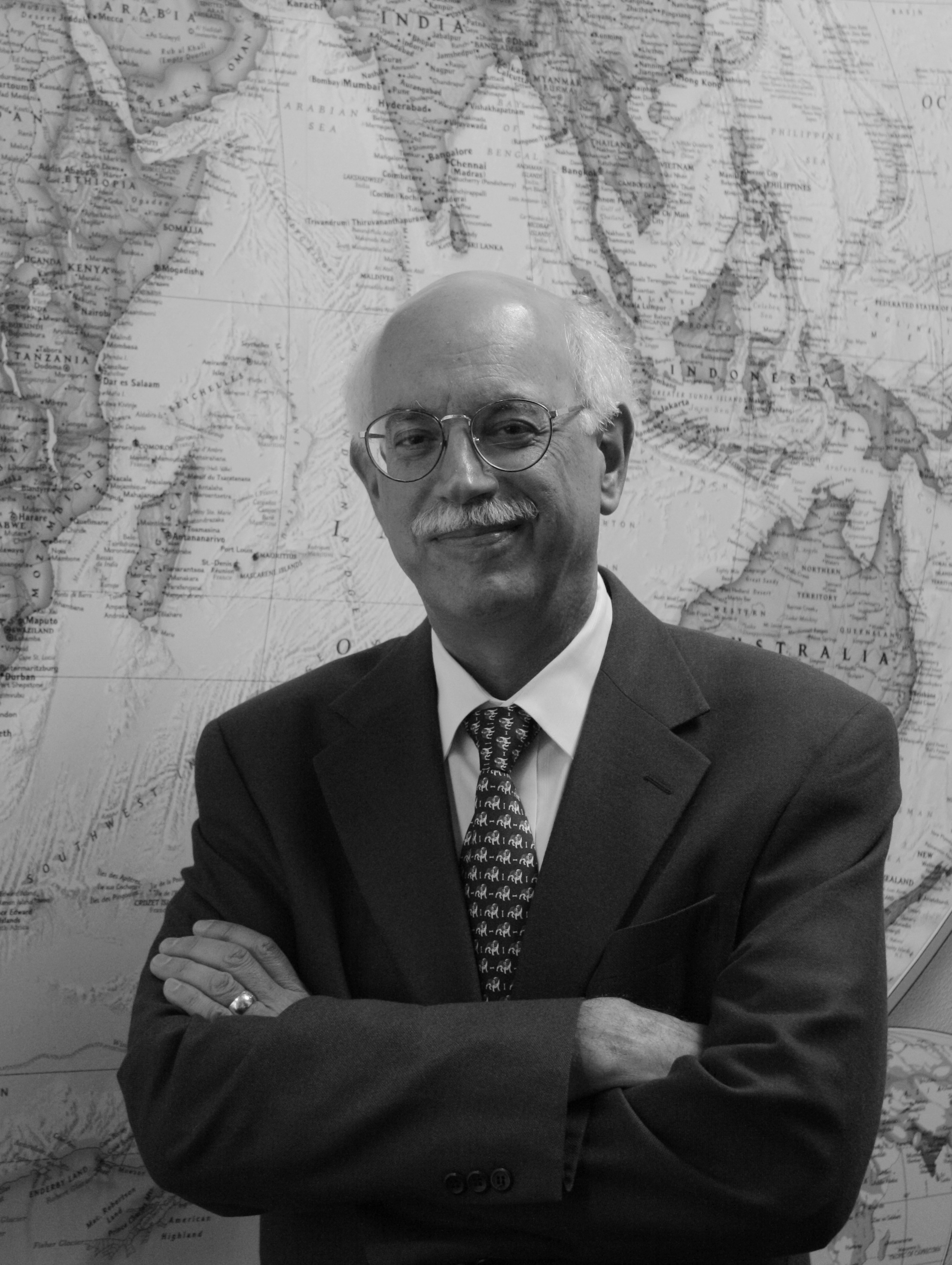 Andrew Natsios at Bush School of Government